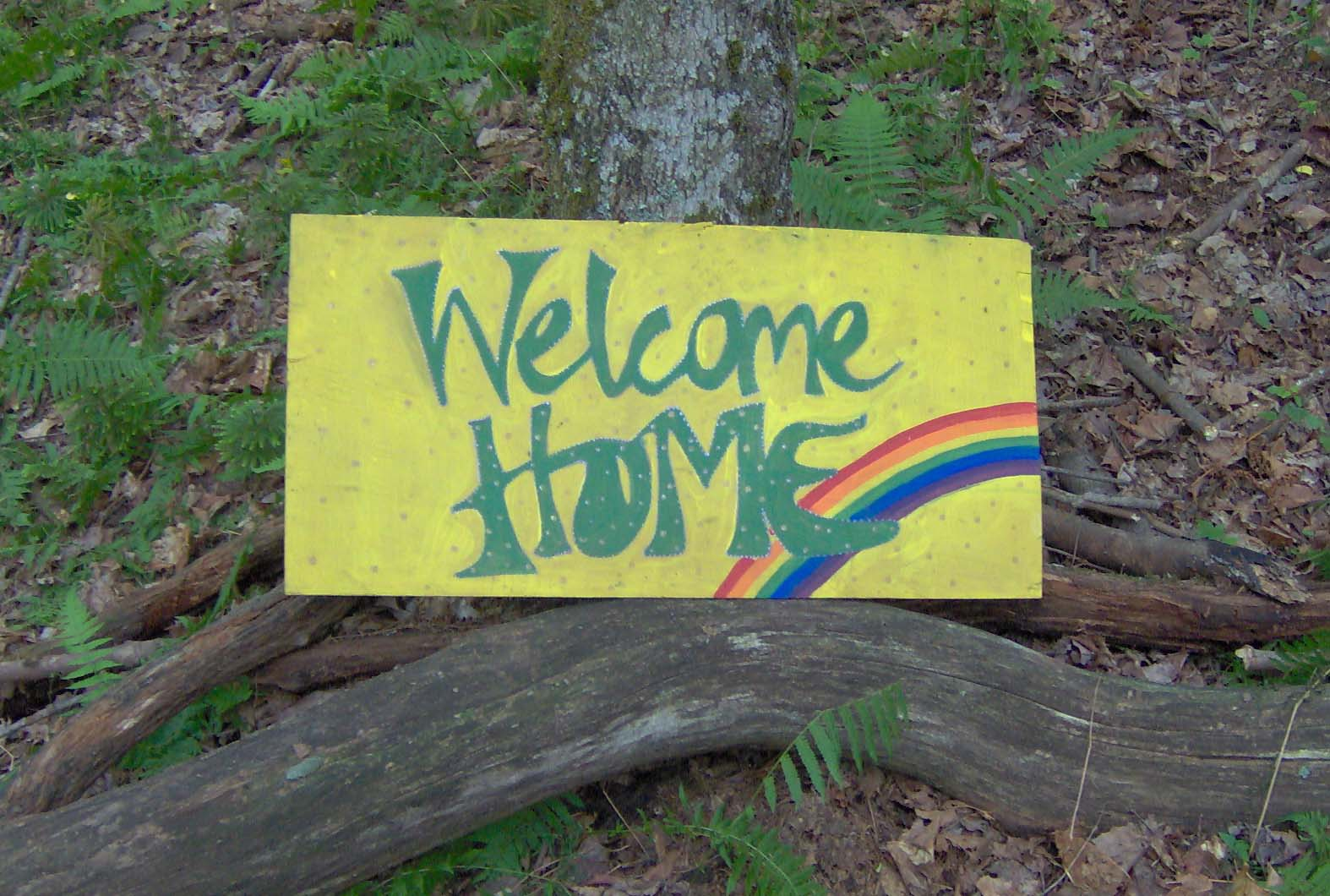 A handmade sign reading 'Welcome Home' at the 2005 Rainbow Gathering in Cranberry, West Virginia